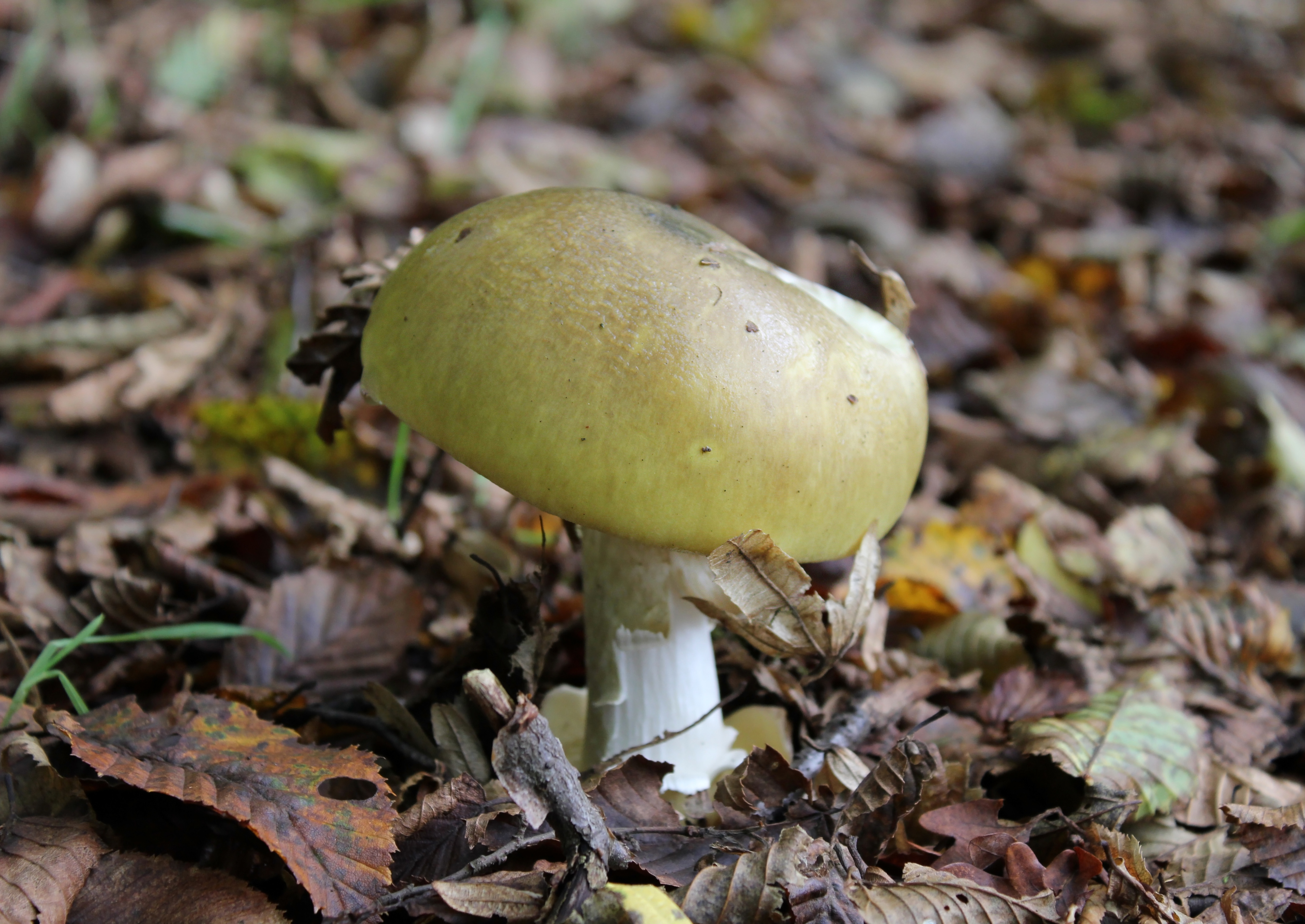 Death Cap mushroom